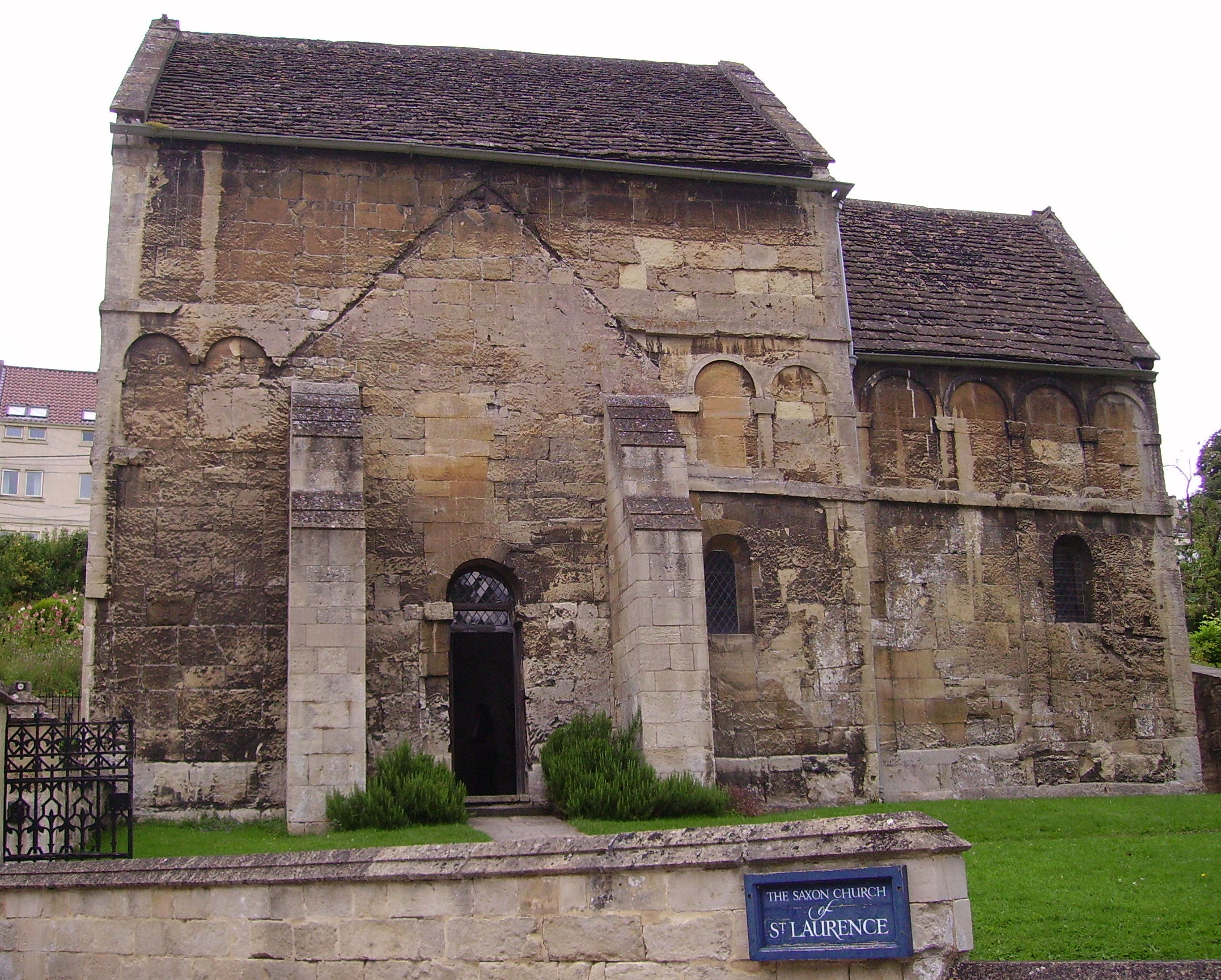 view of the English town of Bradford on Avon